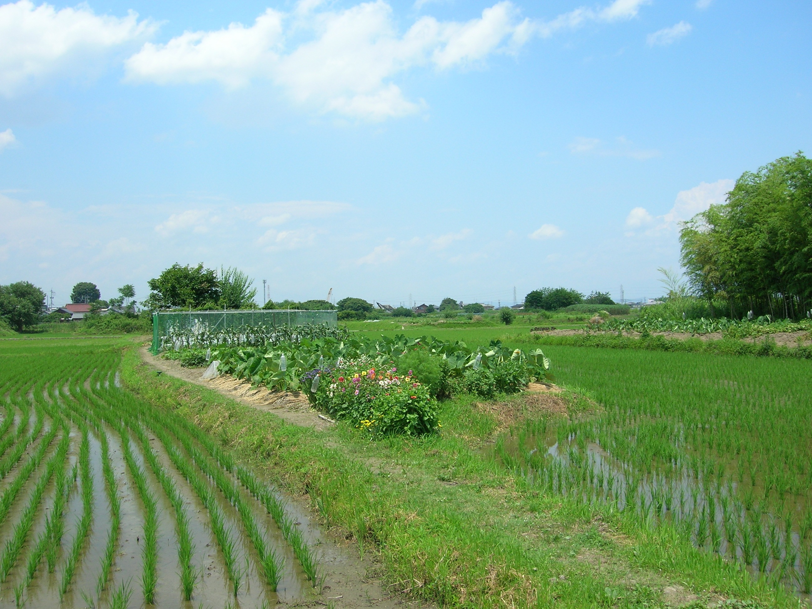 Shimabata (Traditional farming in Japan). Loc: Ichinomiya city, Aichi Prefecture, Japan. 島畑 撮影場所 愛知県一宮市